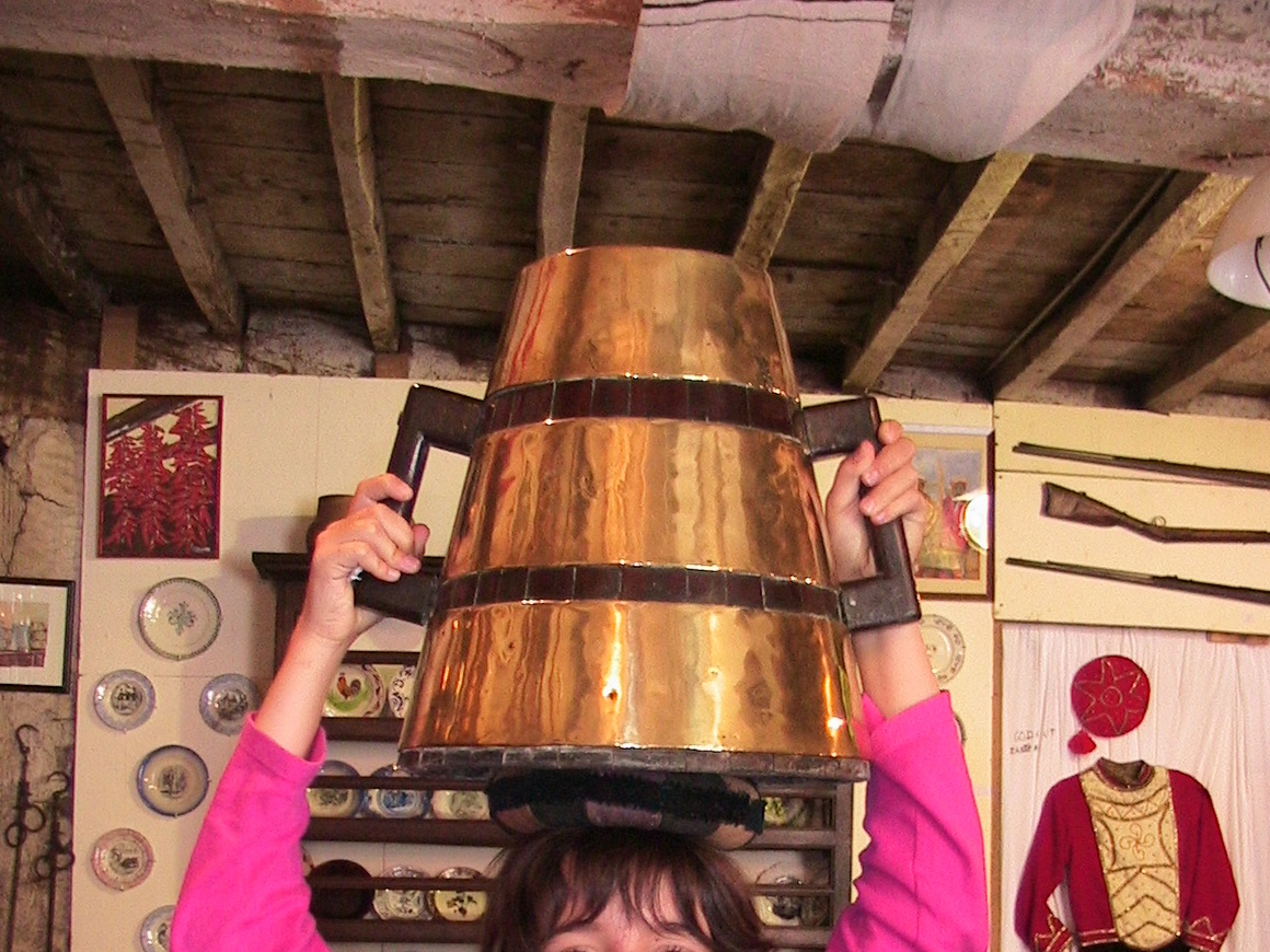 "Sellas" from Montory (France), ancient vessel to transport water.